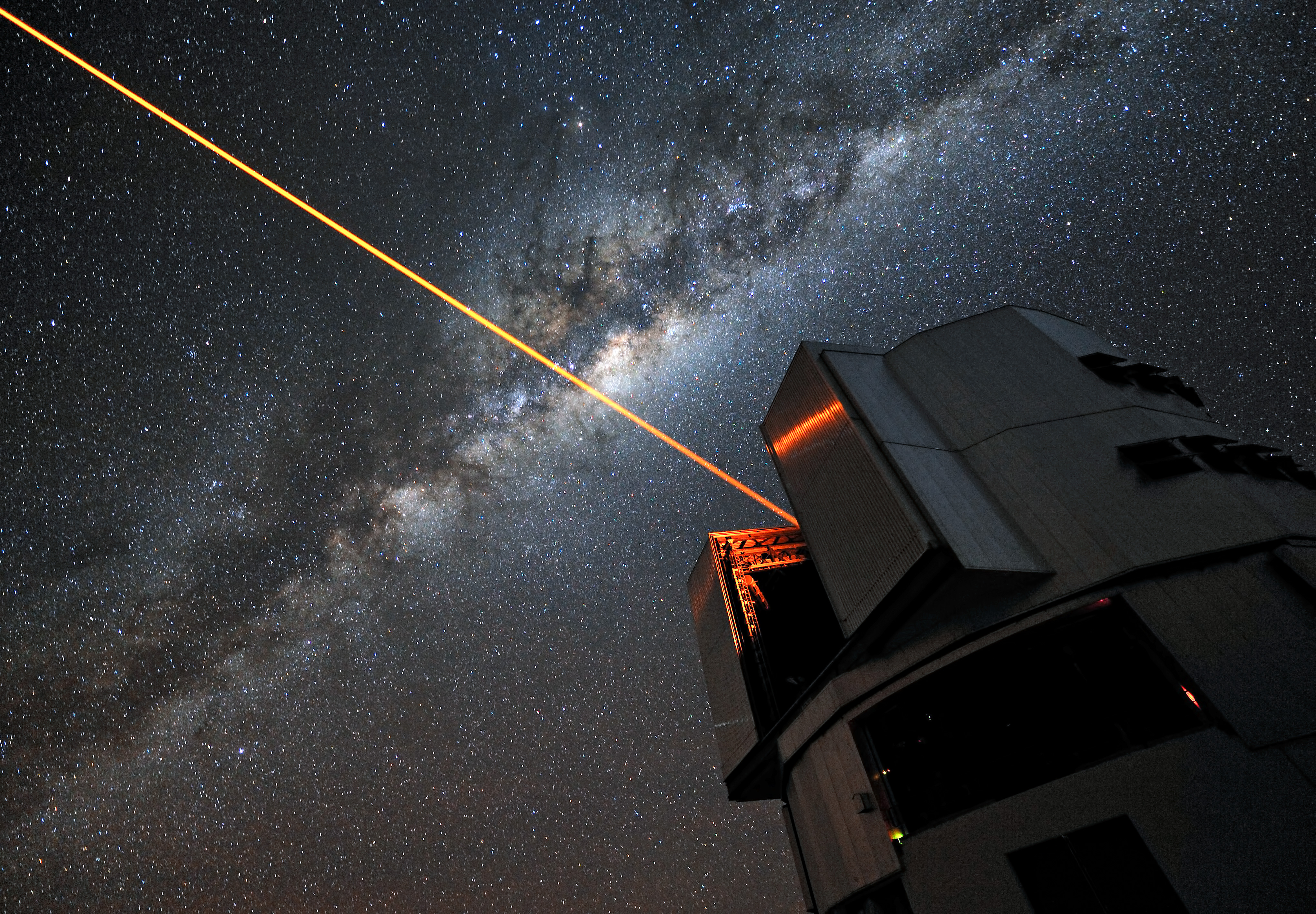 A glowing laser shines forth from the European Southern Observatory’s Very Large Telescope. Piercing the dark Chilean skies, its mission is to help astronomers explore the far reaches of the cosmos. ESO Photo Ambassador Gerhard Hüdepohl was on hand to capture the moment in a stunning portrait of modern science in action. We have all gazed up at the night sky and seen the stars gently twinkle as the Earth’s turbulent atmosphere causes their light to shimmer. This is undoubtedly a beautiful sight, but it causes problems for astronomers, who want the crispest possible views. To help them achieve this, professional stargazers use something that sounds as though it has come from science fiction: a laser guide star that creates an artificial star 90 km above the surface of the Earth. The method by which it achieves this is nothing short of remarkable. The laser energises sodium atoms high in the Earth’s mesosphere, causing them to glow and creating a bright dot that to observers on the ground appears to be a man-made star. Observations of how this “star” twinkles are fed into the Very Large Telescope’s adaptive optics system, controlling a deformable mirror in the telescope to restore the image of the star to a sharp point. By doing this, the system also compensates for the distorting effect of the atmosphere in the region around the artificial star. The end result is an exceptionally crisp view of the sky, allowing ESO astronomers to make stunning observations of the Universe, almost as though the VLT were above the atmosphere in space.